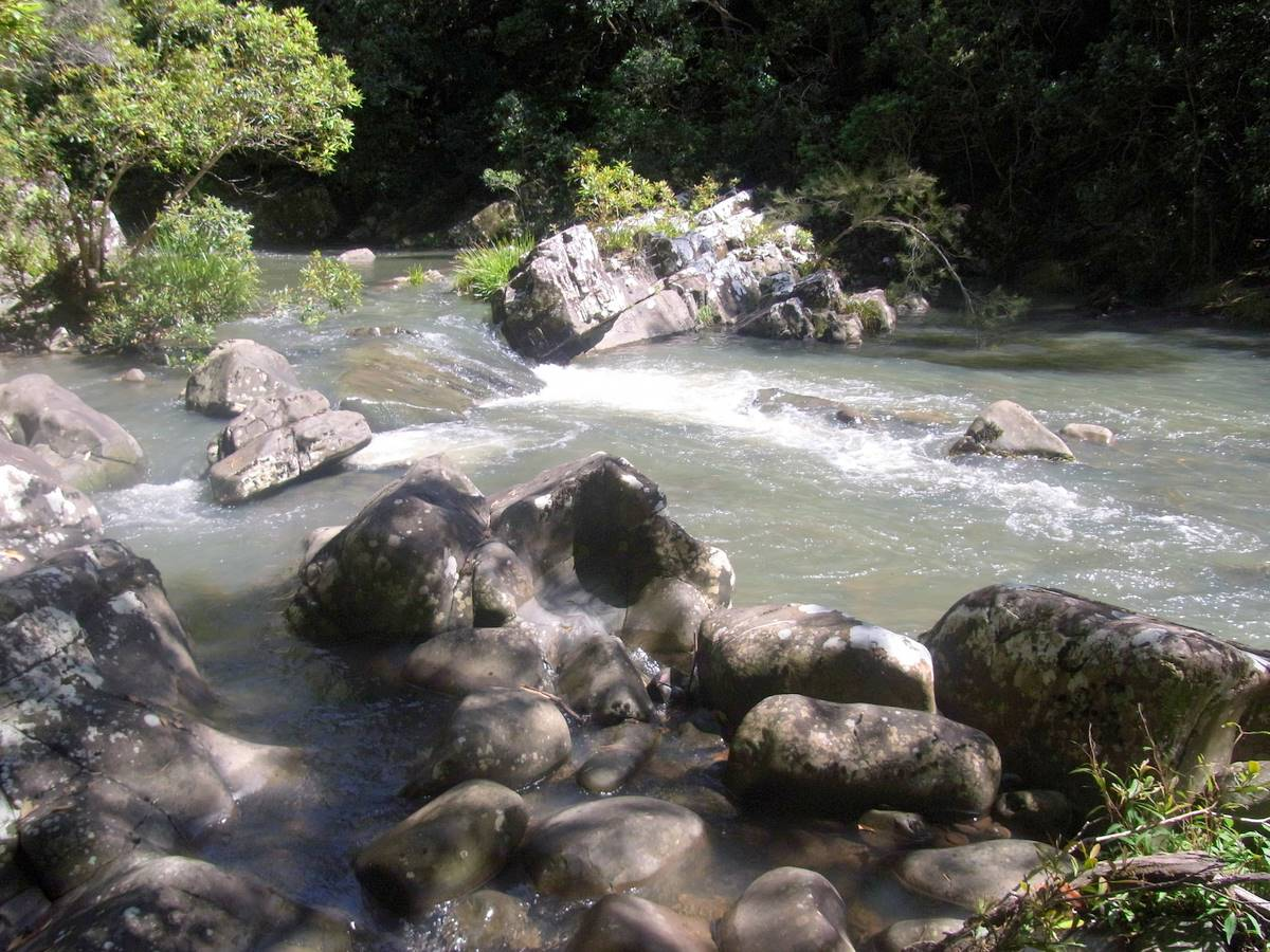 Telegherry River, via "4 Corners" and Main Creek, Dungog, Australia